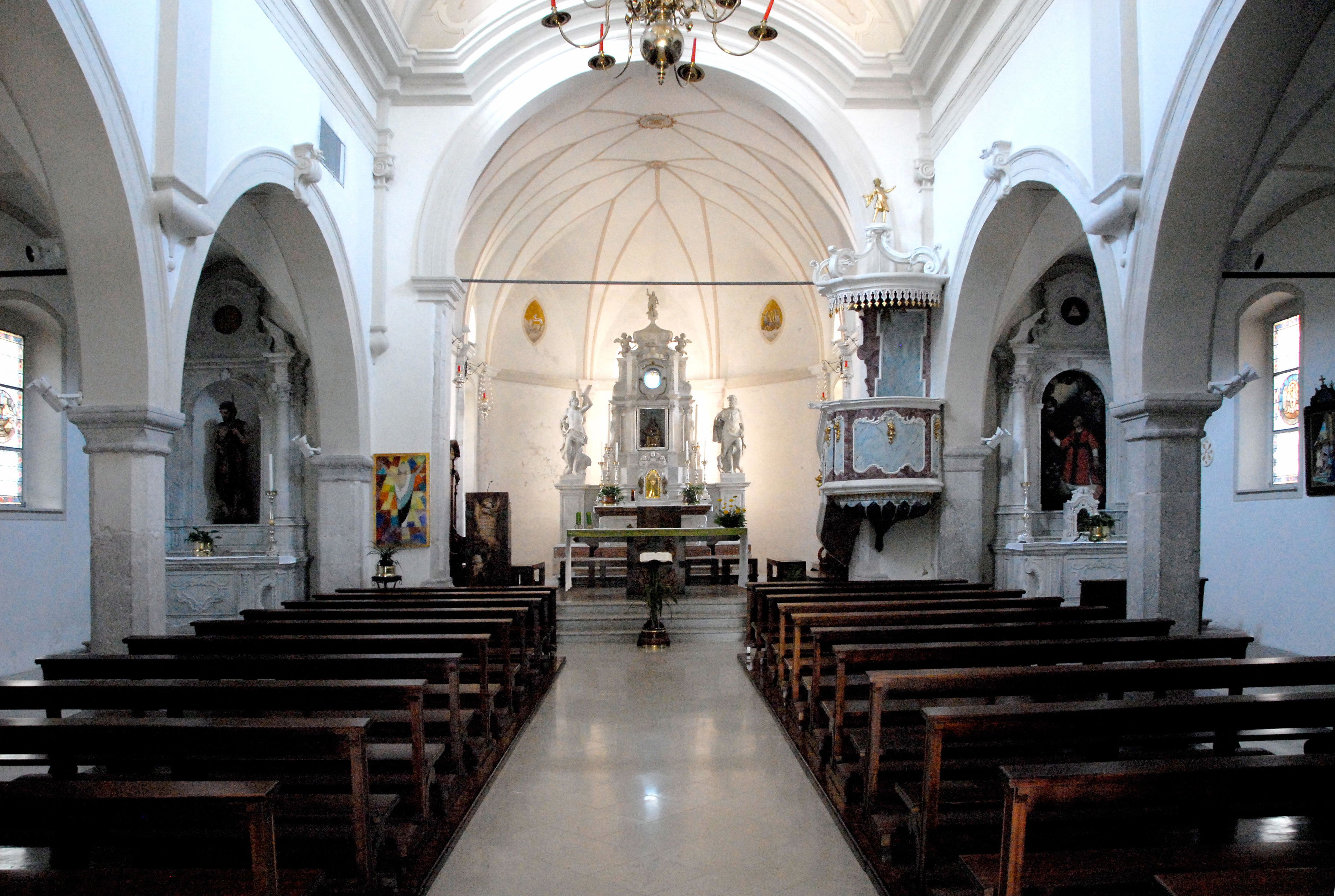 Pieve di Santa Maria Assunta (interior of the church) at Prato in the Resia valley of Friuli-Venezia Giulia / Italy / EU.